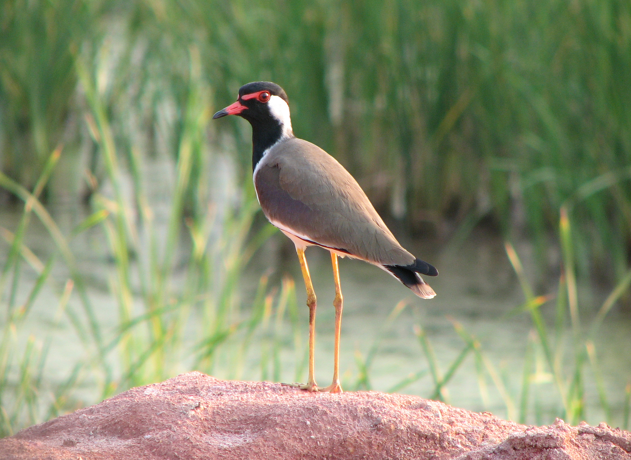 Red-wattled Lapwing Vanellus indicus, Mangalore, Karnataka, India